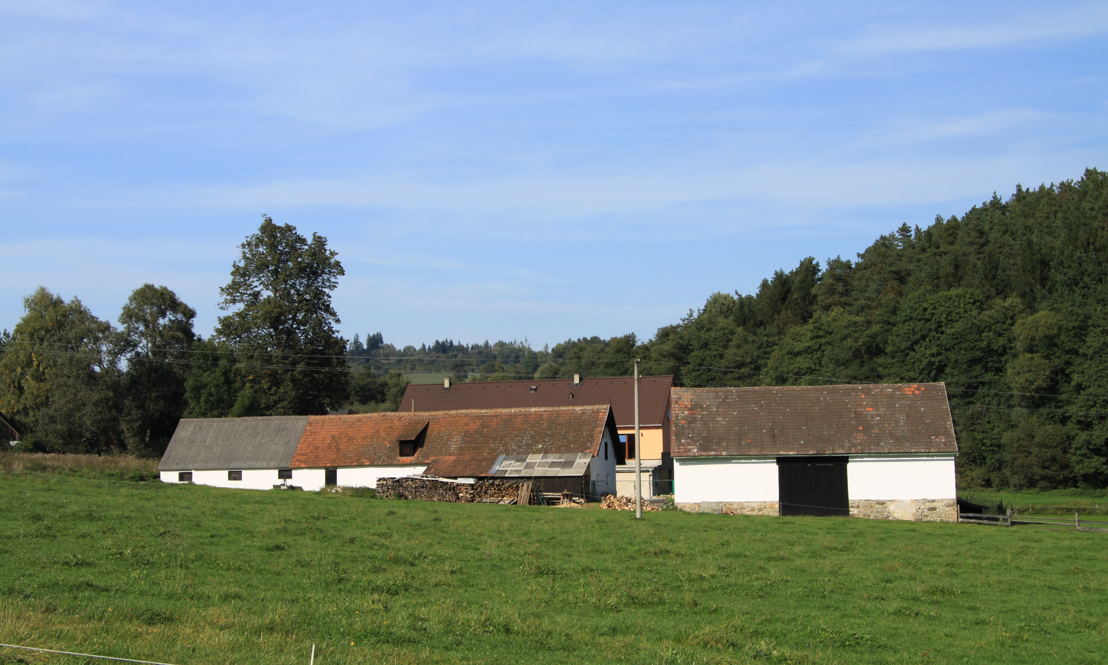 Petříkovice, part of Nadějkov village in Tábor District, Czech Republic